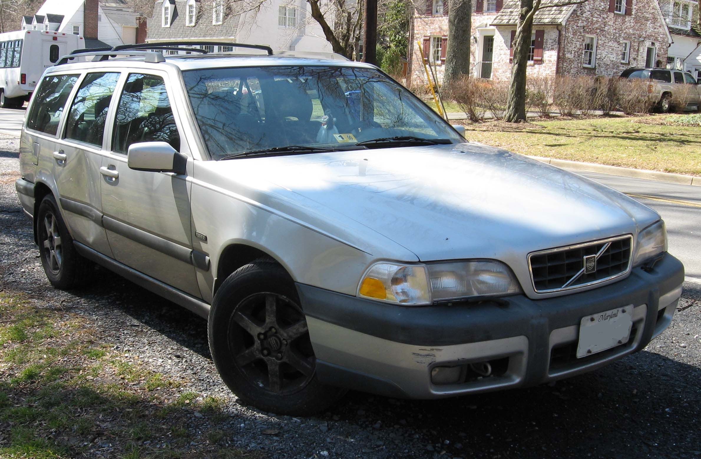 Volvo V70 XC Cross Country photographed in USA